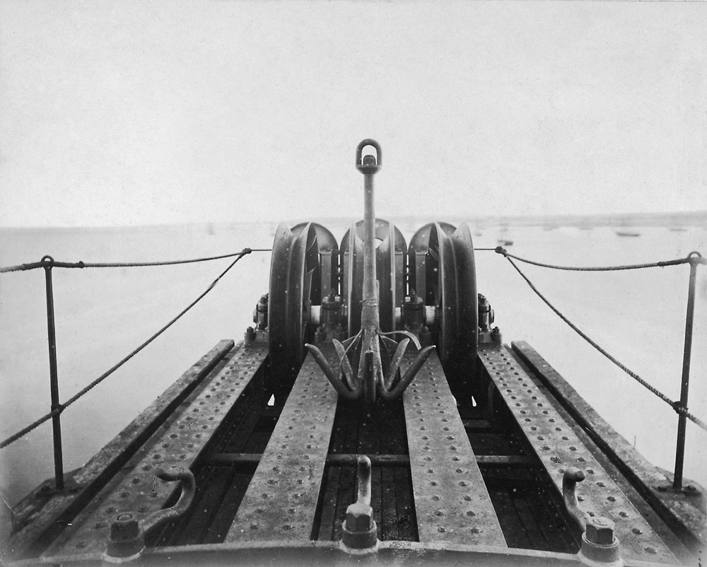 Grappling Hook used for lifting the Transatlantic Telegraph Cable, on the Great Eastern.